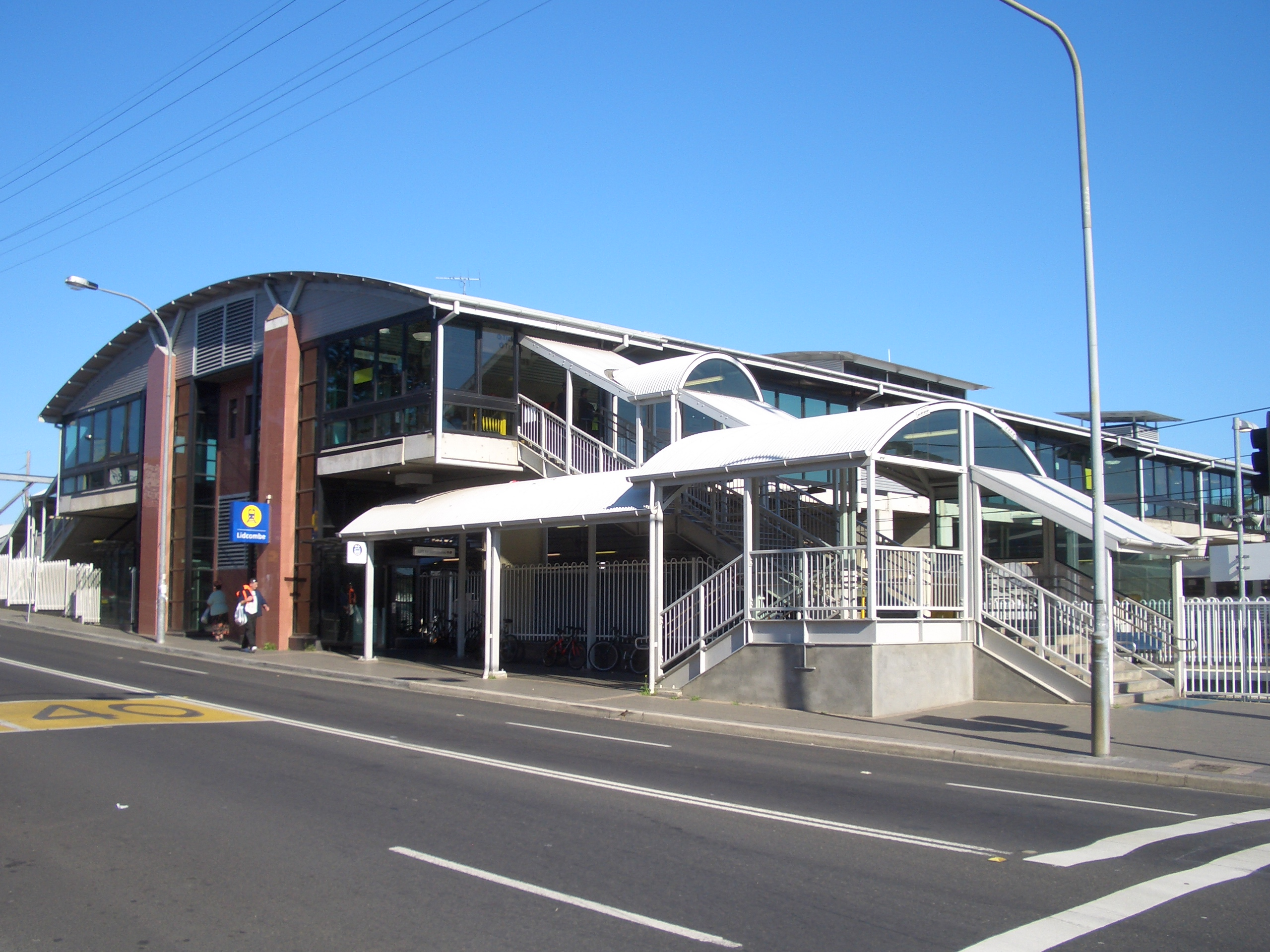 Lidcombe Railway Station, Sydney